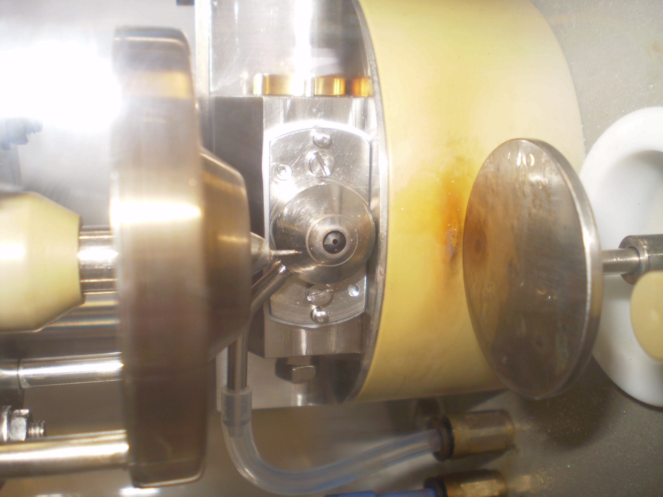 A close-up of an Electrospray device taken at the Nottingham University.